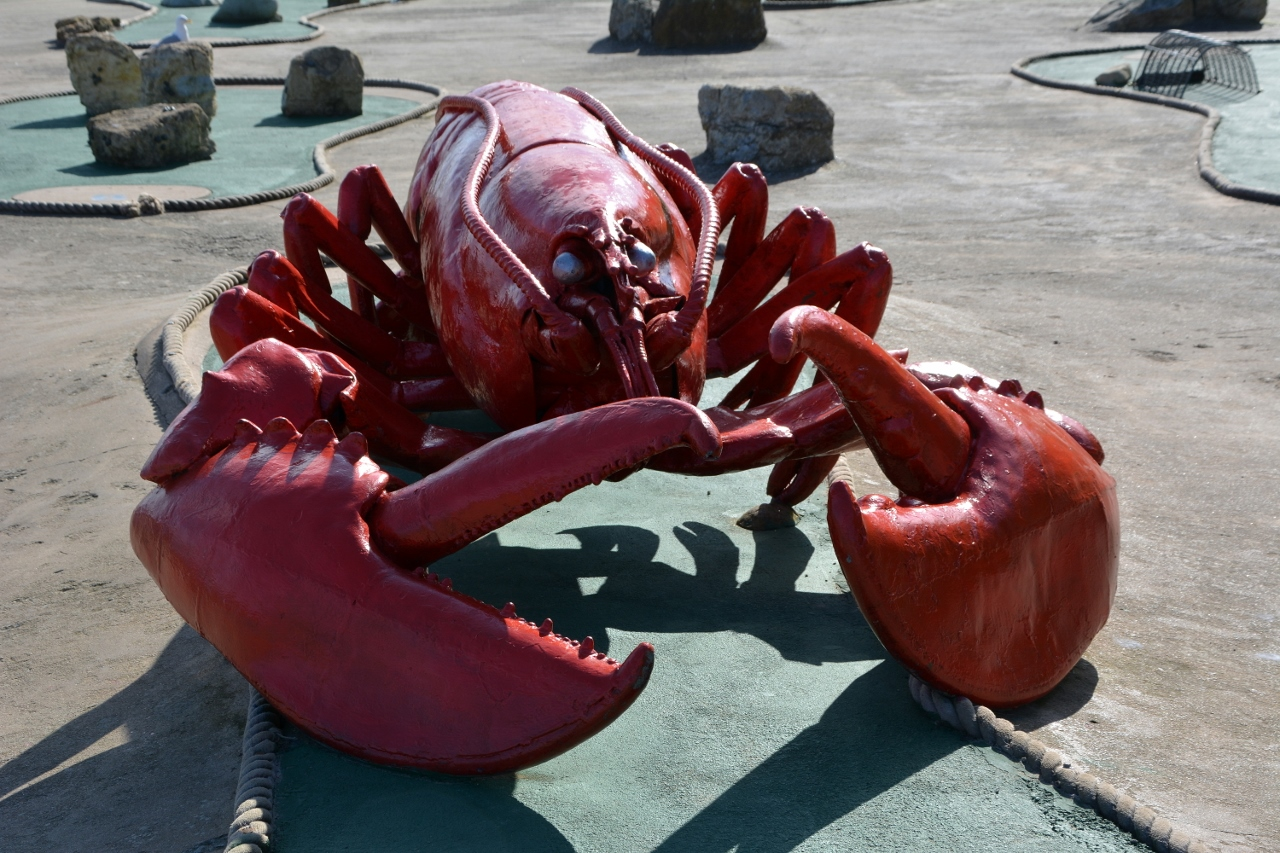 In and around Filey